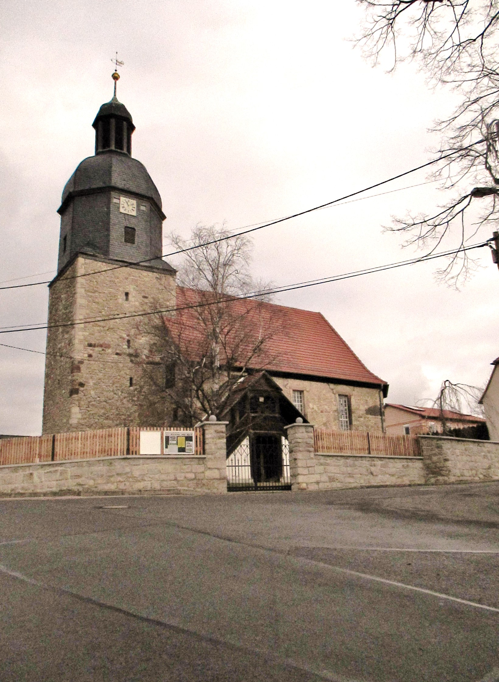 Michaelis church in Egstedt, a suburb of Erfurt.